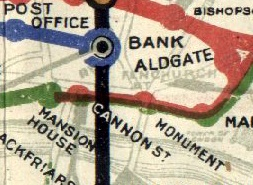 A portion of the 1908 map of the electric underground railways of London, showing Bank and Monument